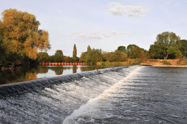 Weir on the River Severn Weir on the River Severn at Upper Lode near Tewkesbury